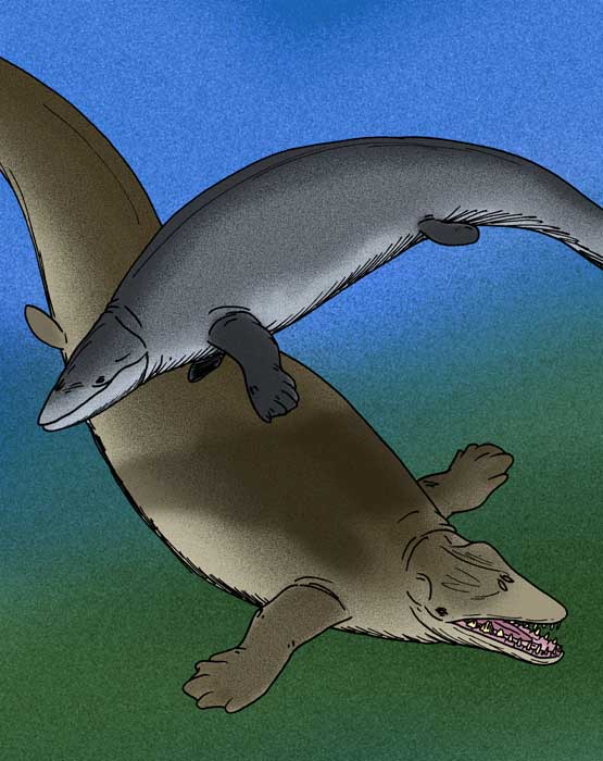 Reconstructions of the basilosaurid whales, Ocucajea picklingi (top), and Supayacetus muizoni (below), from Eocene Peru